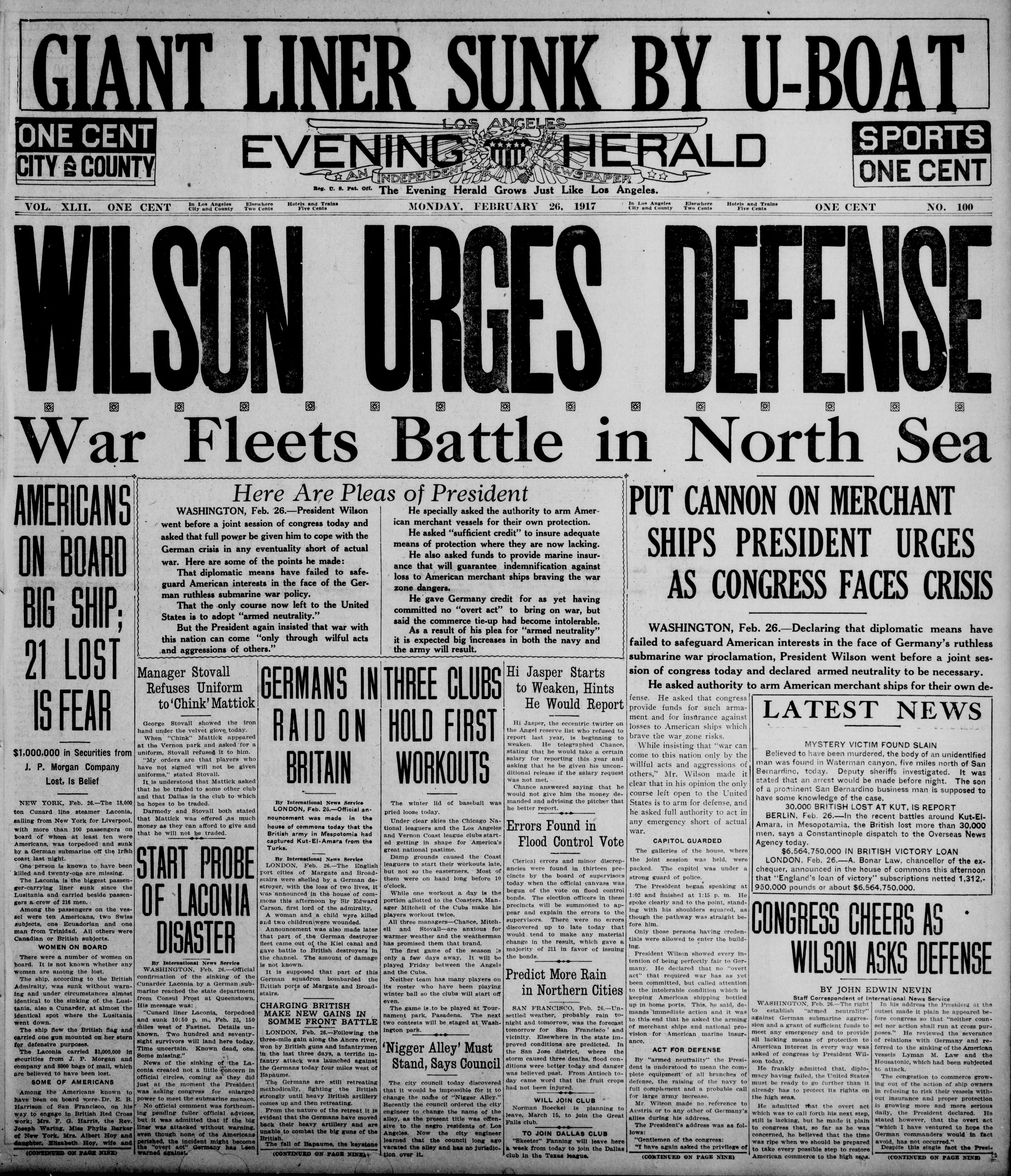 Complete copy of Los Angeles Herald, Number 100, 26 February 1917